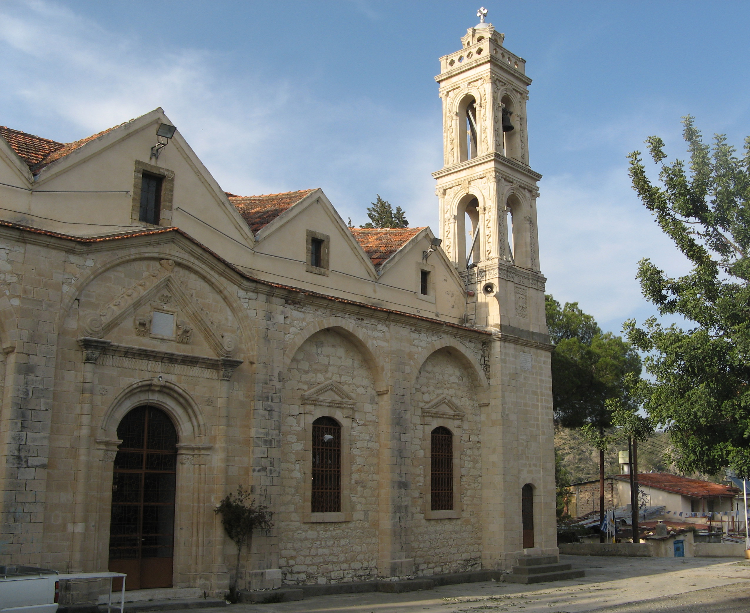 Village church in Ayios Mamas village in Cyprus